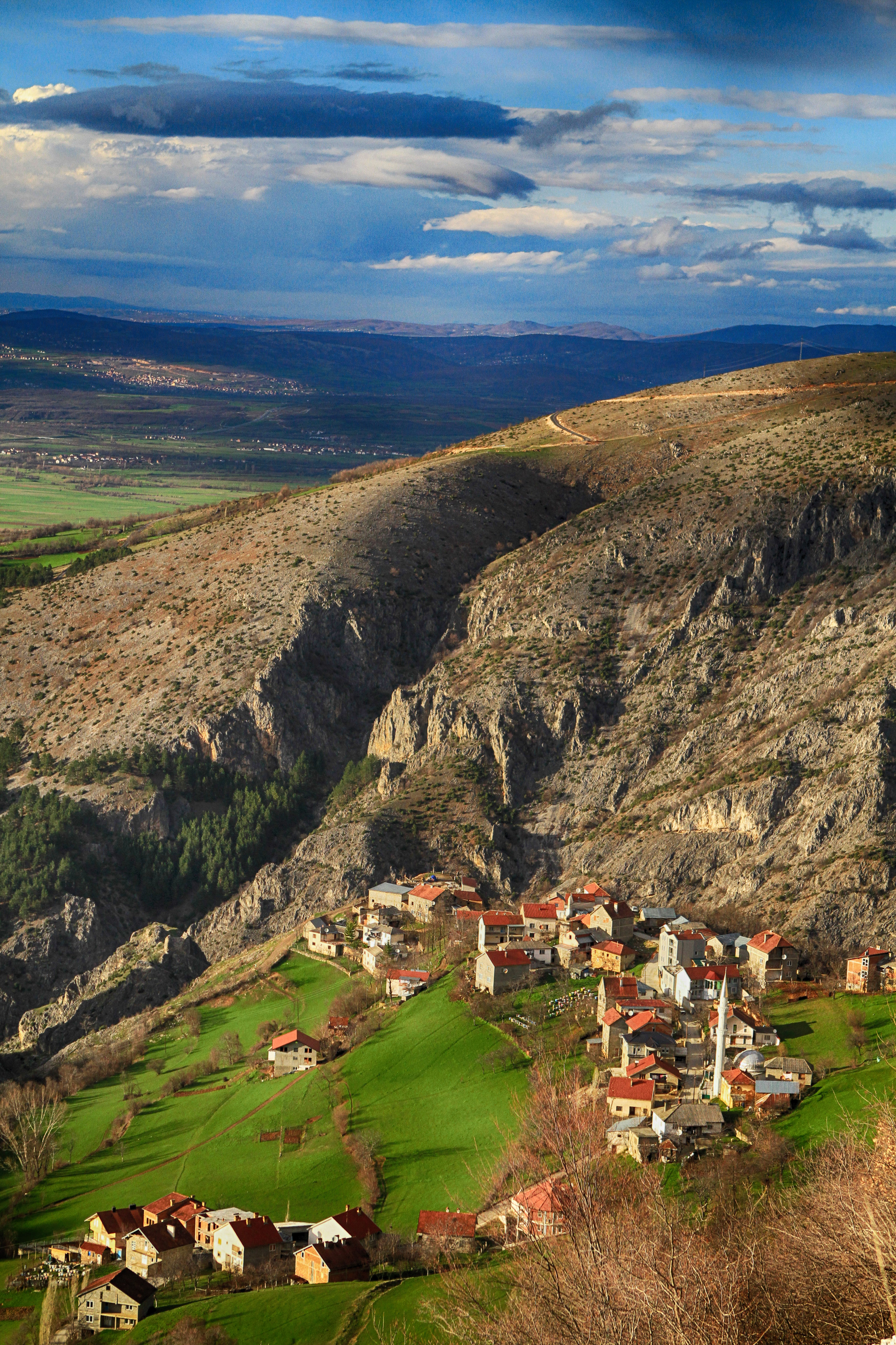 Picturesque village near Prizren called Pouska, nature really is very beautiful